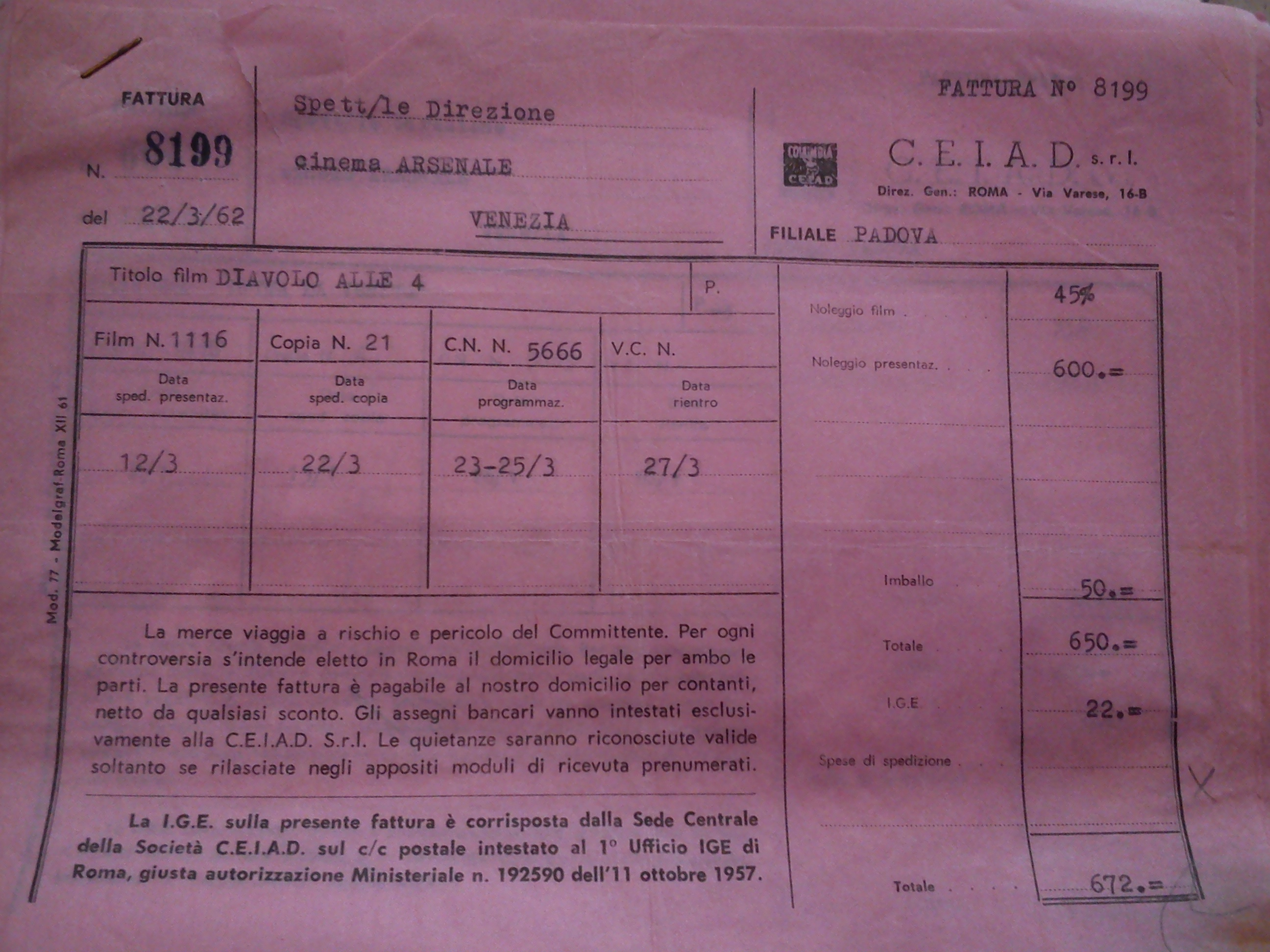 Document on The Devil at 4